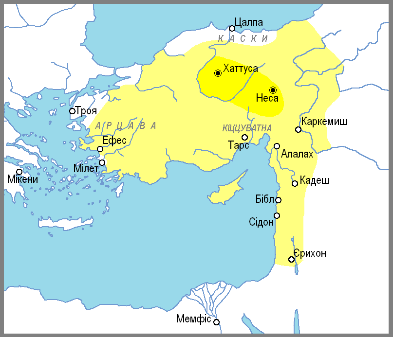 Map of Hittite Empire (ukrainian)